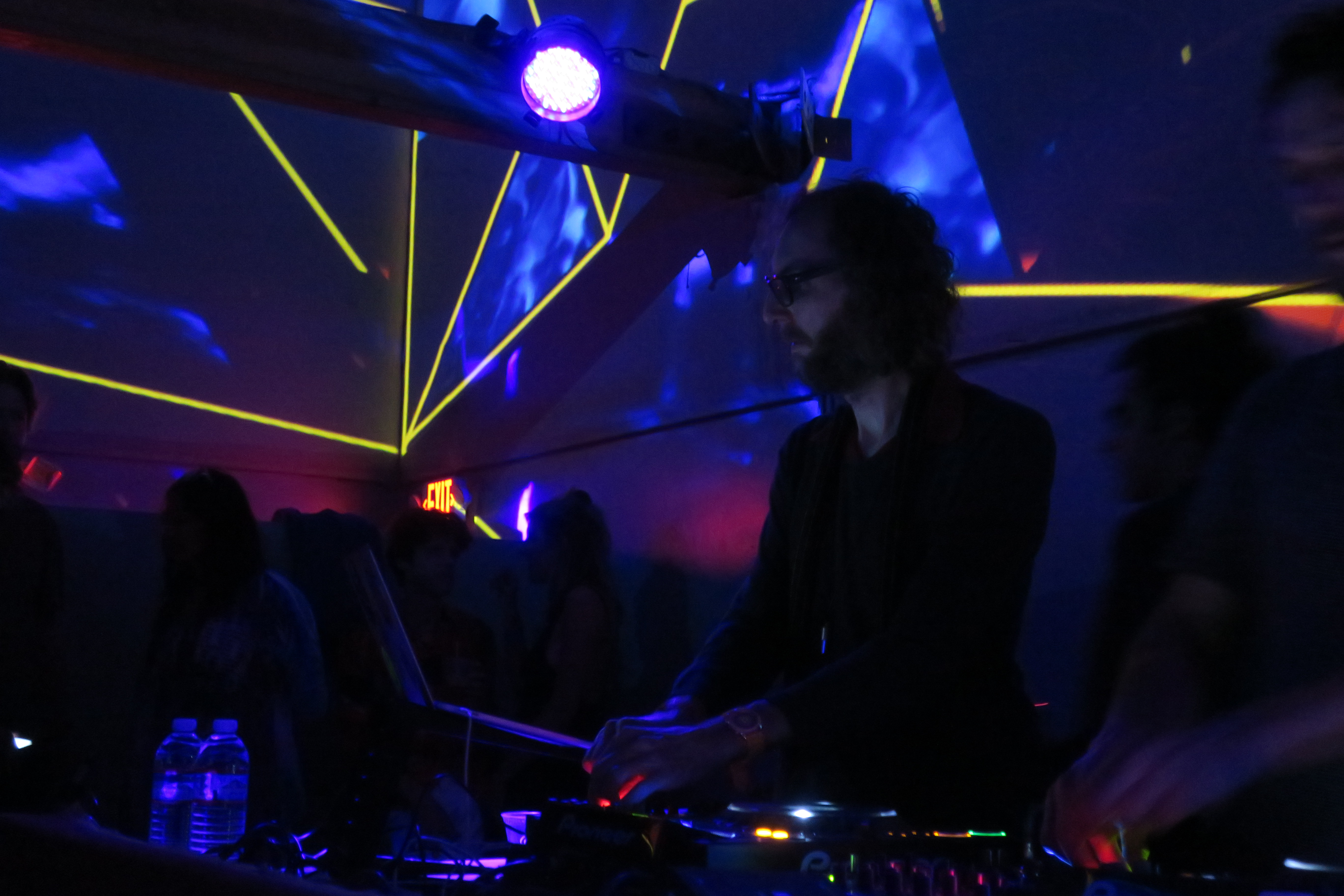 Acid Pauli playing at Public Works, San Francisco CA.